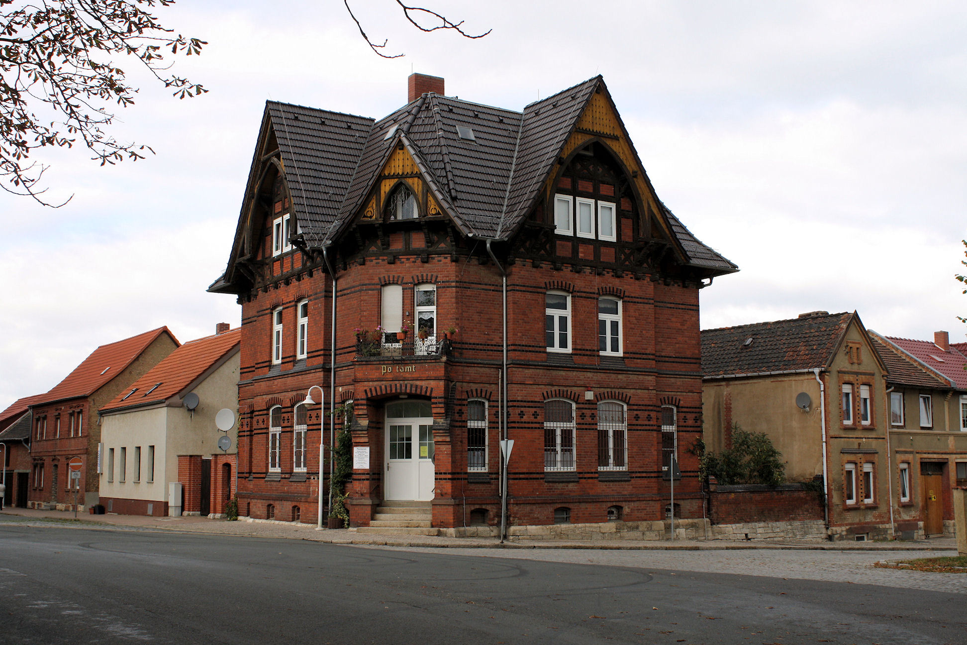 This old post-office building is at the junction of Bahnhofstraße (Station Road) and Sandkuhle (the Sandpit).